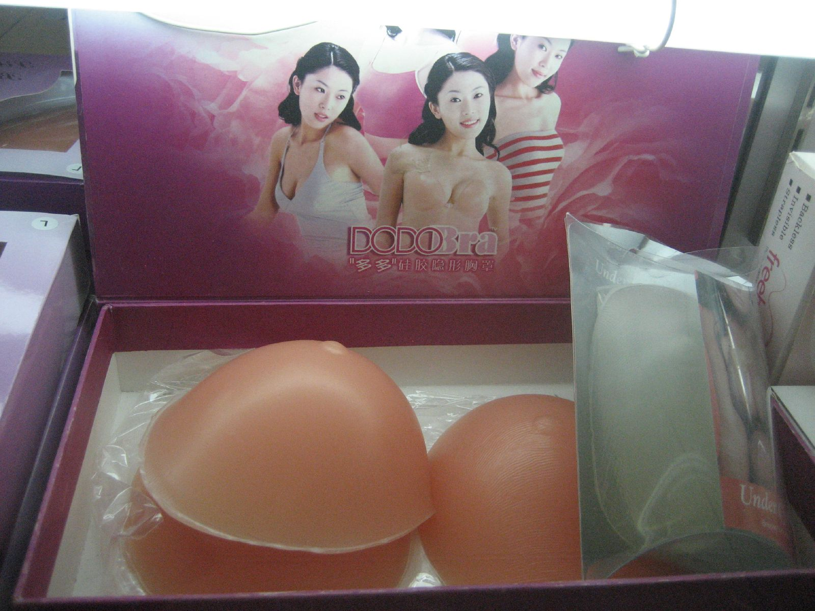 Nu bra is easy to apply and simple to remove.